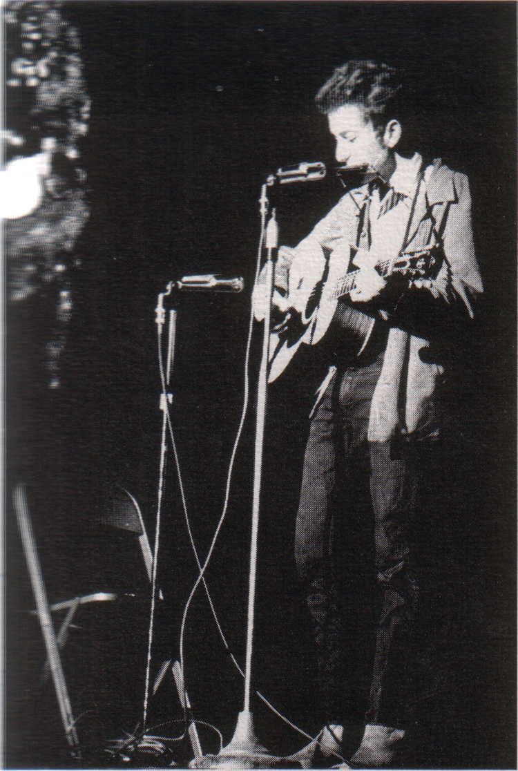 Bob Dylan performing at St. Lawrence University in New York.